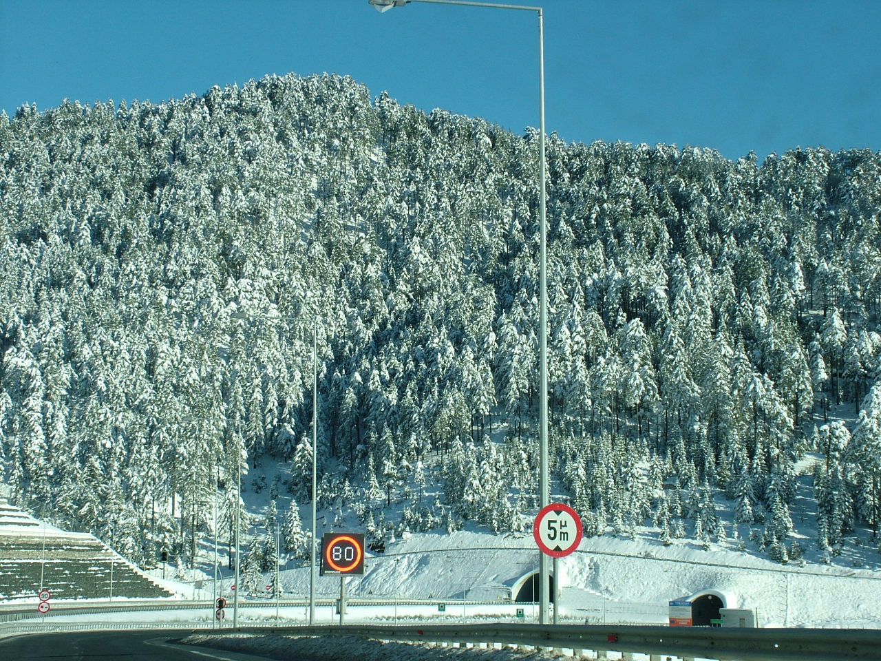 Forest in Pindus Mountain, Epirus, Greece